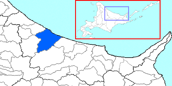 The location of Monbetsu in Abashiri Subprefecture, Hokkaido Prefecture, Japan.